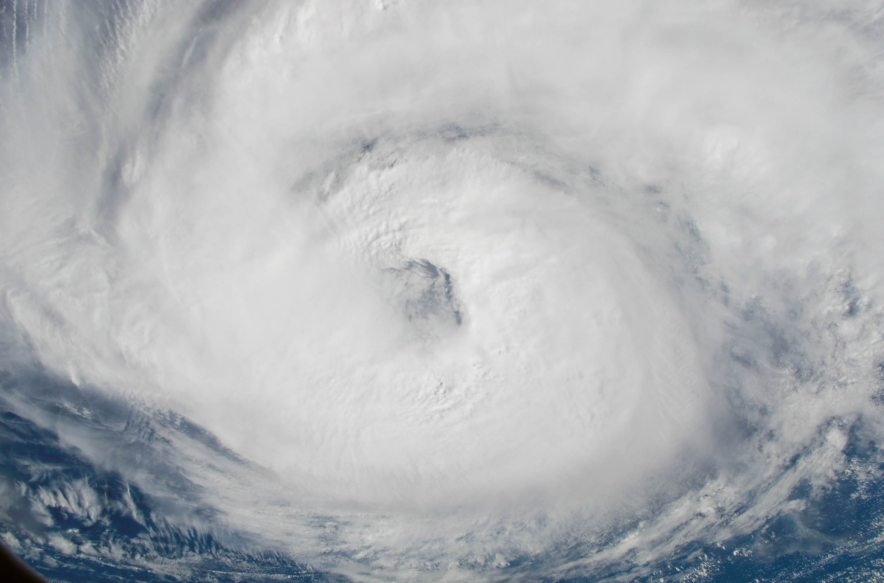 Hurricane Gordon was captured at 18:17:13 GMT, Sept. 17, 2006 with a digital still camera, equipped with a 20-35mm lens, by one of the crewmembers aboard the Space Shuttle Atlantis. The center of the storm was located near 34.0 degrees north latitude and 53.0 degrees west longitude, while moving north-northeast. At the time the photo was taken, the sustained winds were 70 nautical miles per hour with gusts to 85 nauticalmiles per hour.